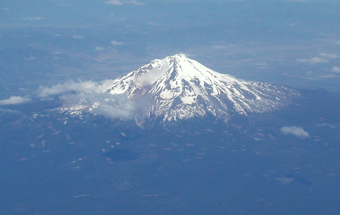 Mount Shasta seen from the air, bigger version.